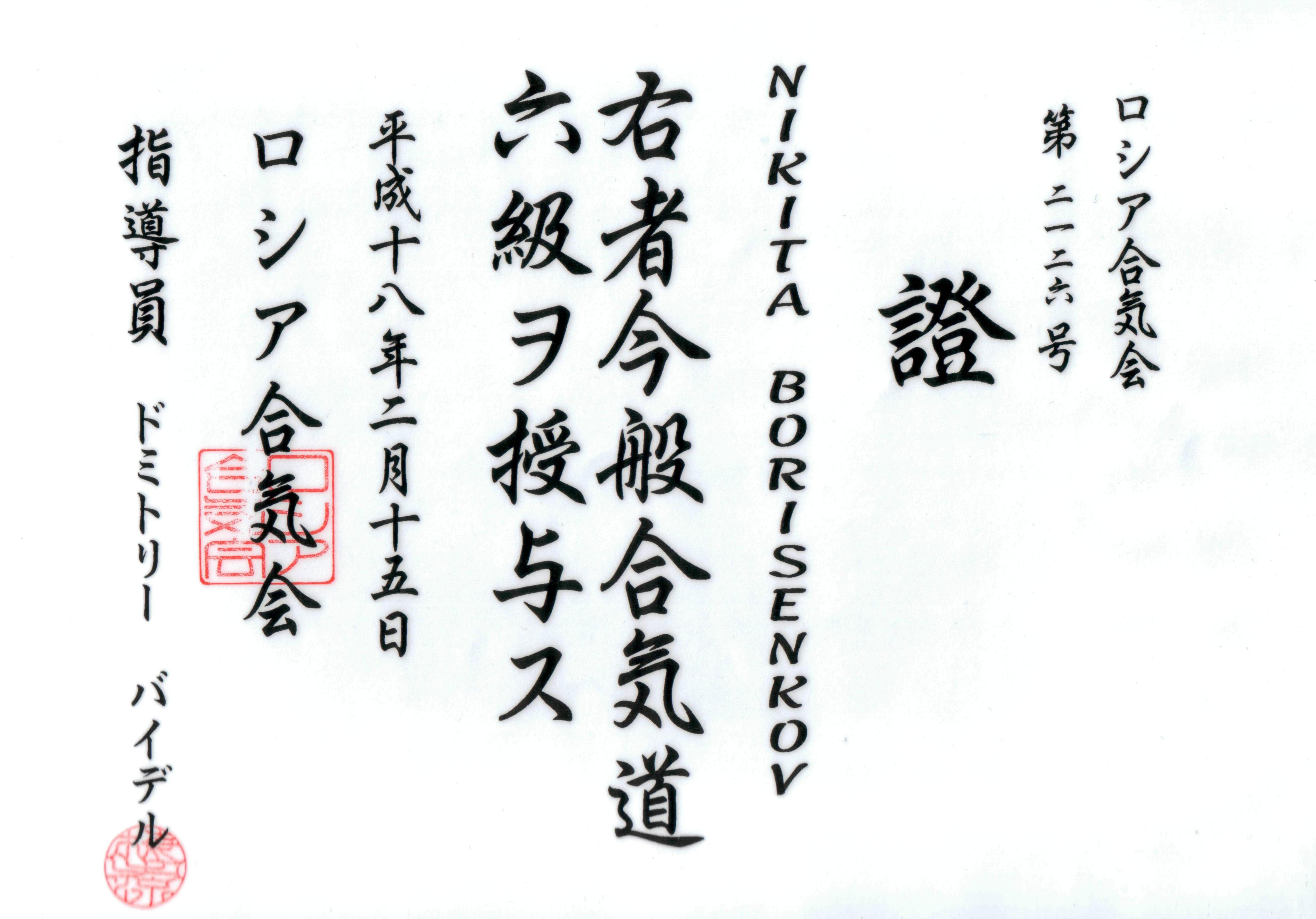 Aikido Aikikai Diploma